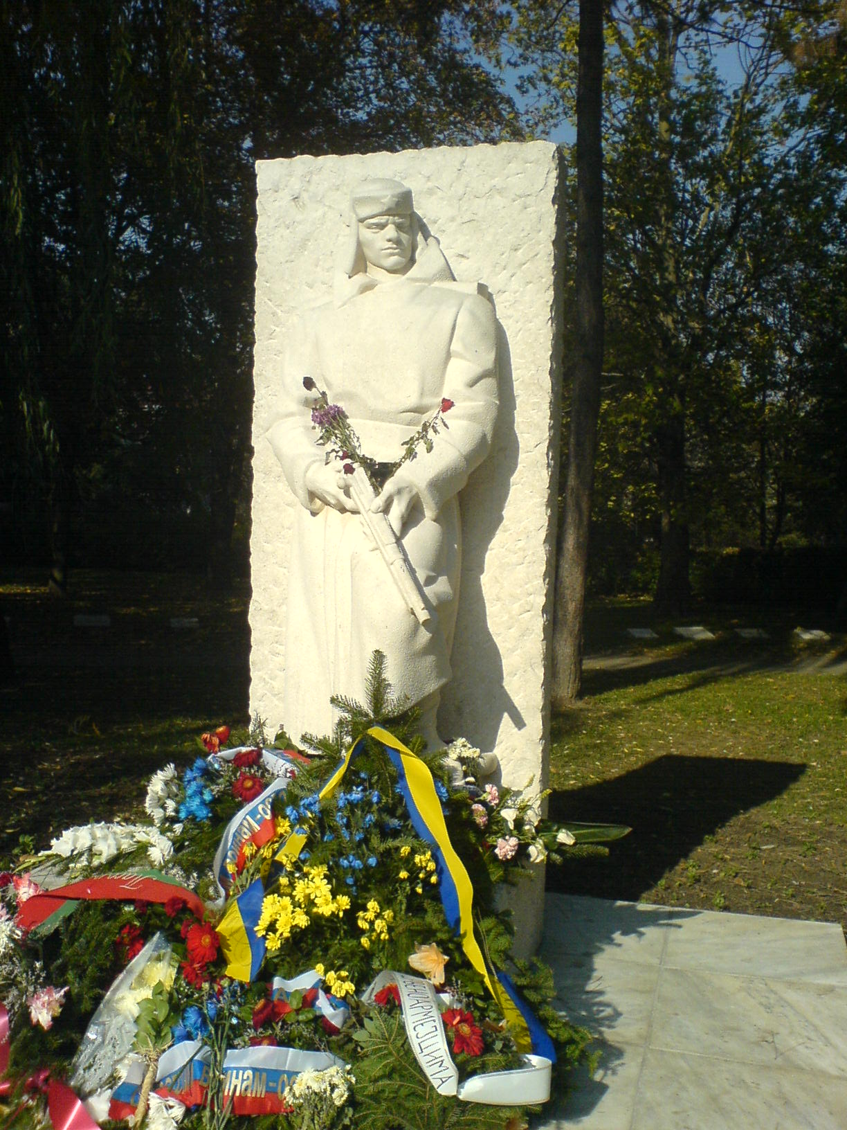 Red Army soldier monument at Novo groblje, Belgrade